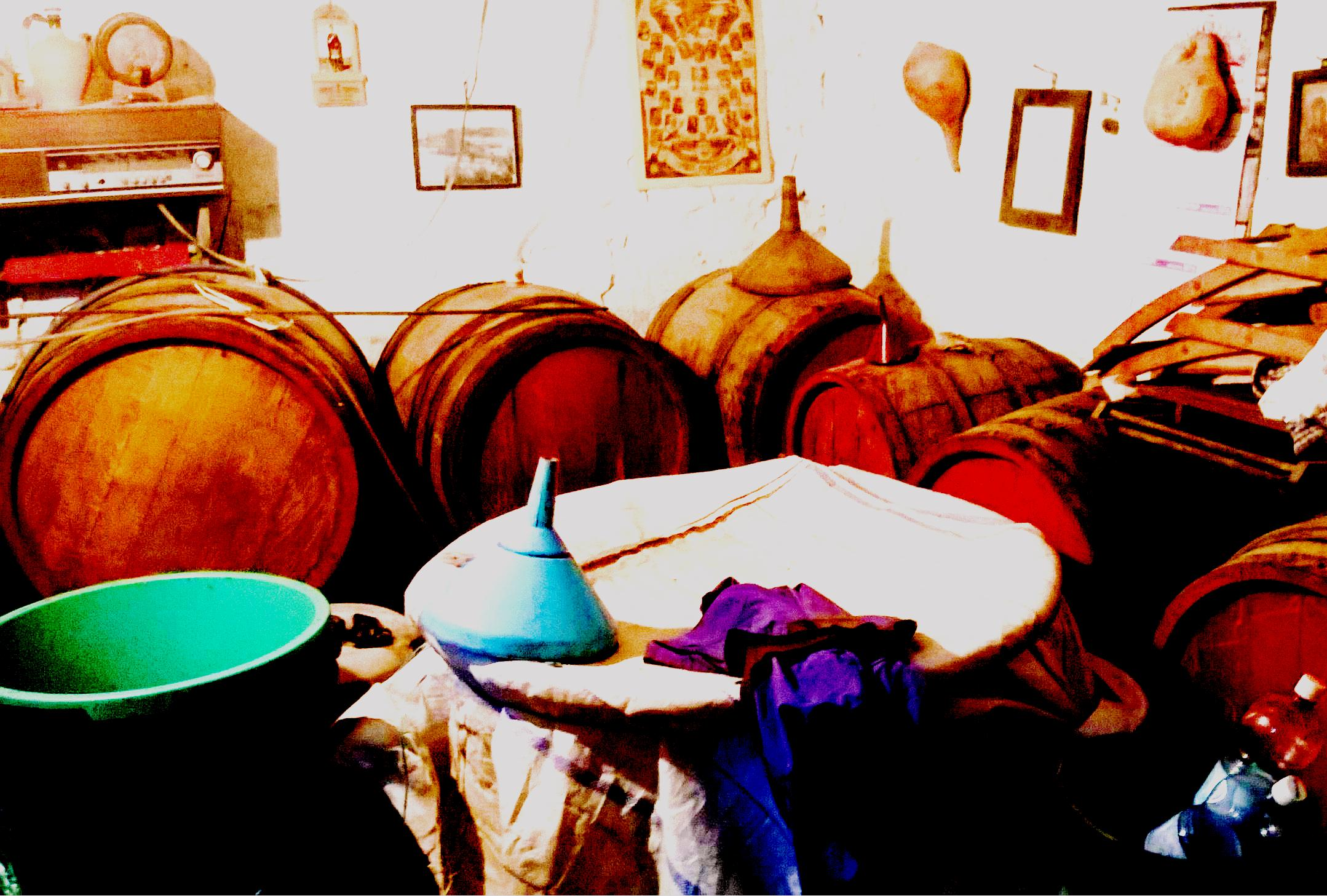 Rakija barell